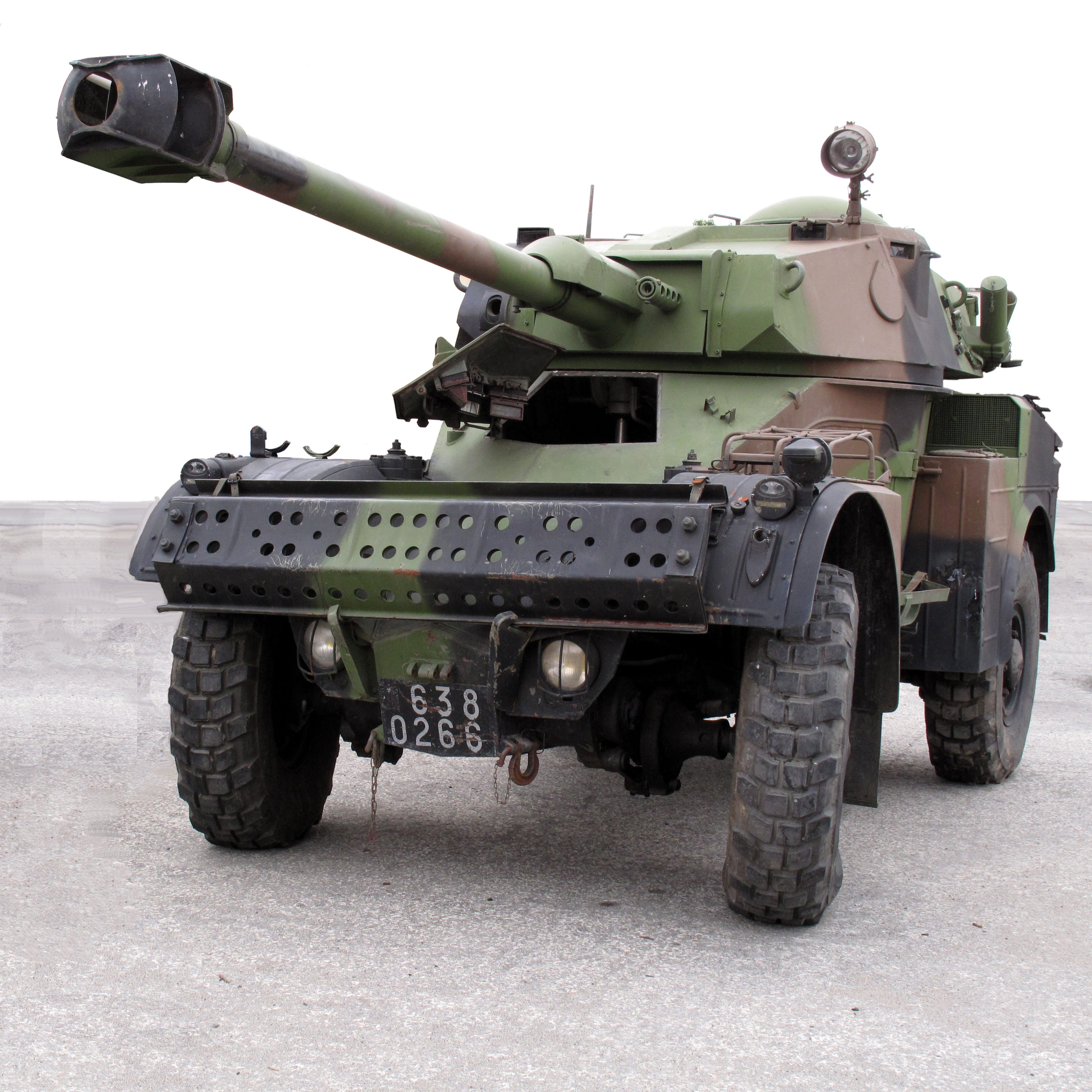 Panhard AML. On display at Saumur Général Estienne museum.